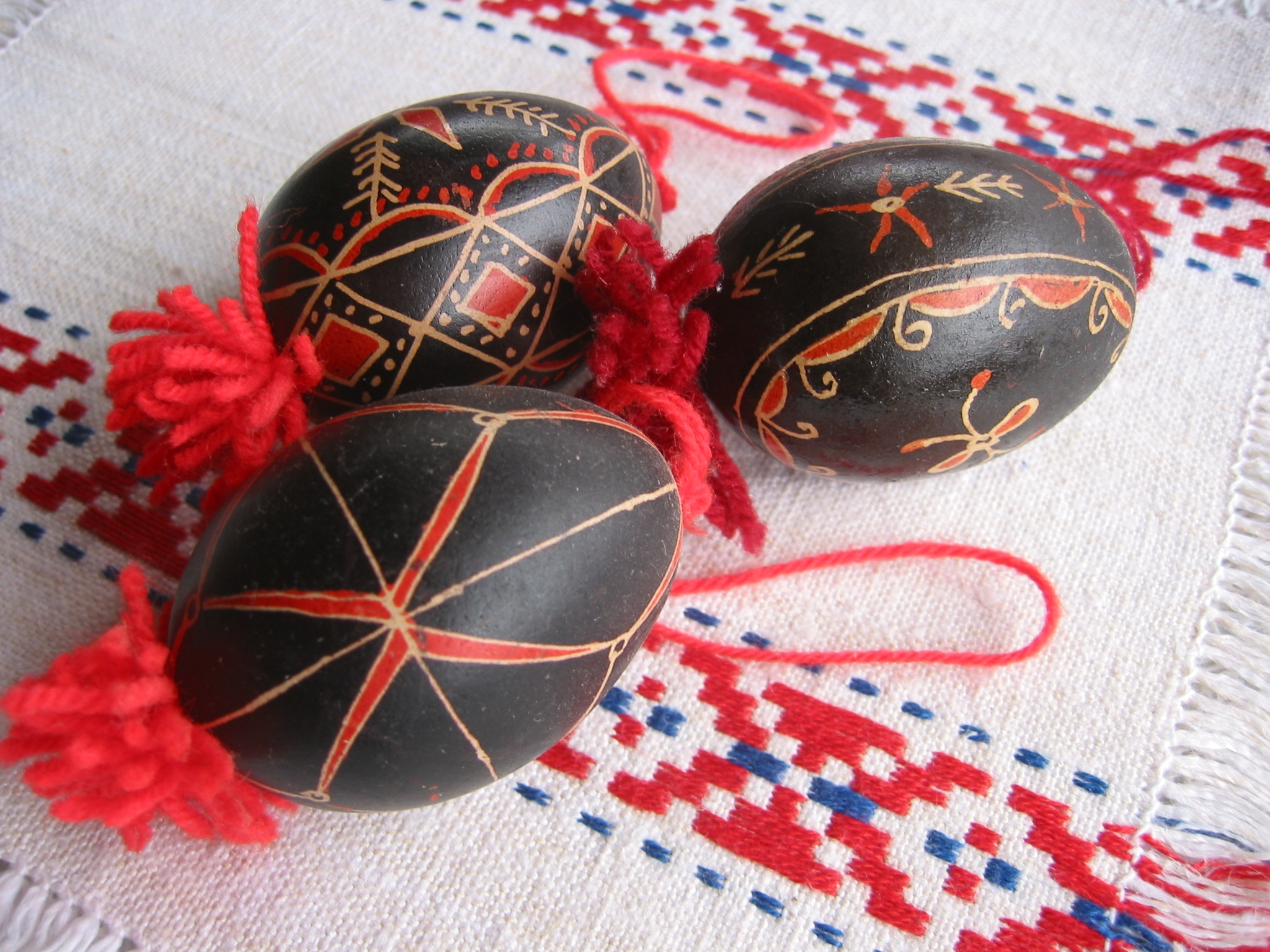 Easter eggs from Bela Krajina, Slovenia